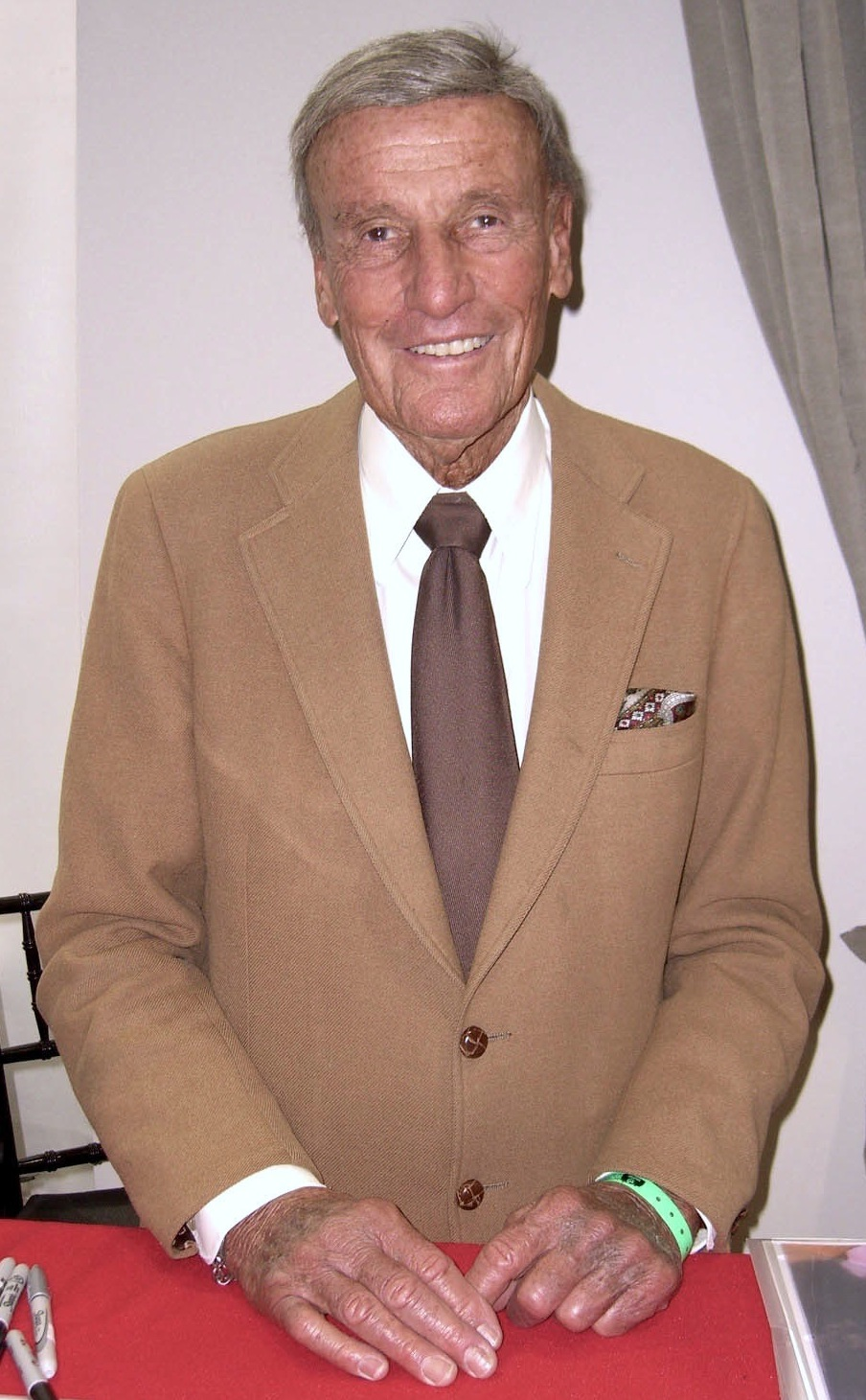 Actor Richard Anderson at the Big Apple Convention in Manhattan, October 2, 2010. Photo by Luigi Novi.